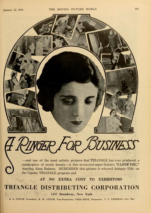 "A Ringer for Business": Advertisement for the film I Love You, starring Alma Rubens, in Moving Picture World, January 1918